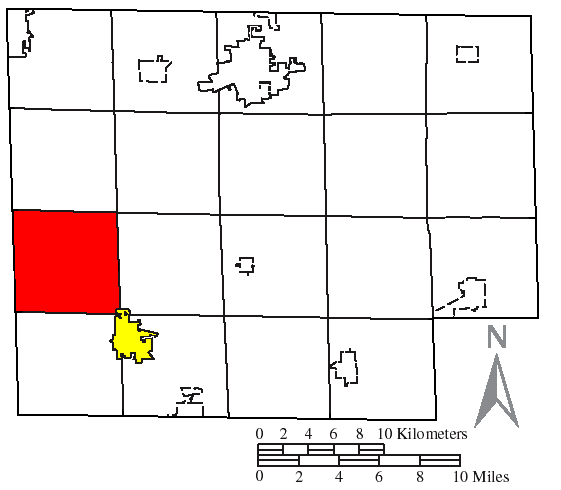 Made by the US Census and modified by myself